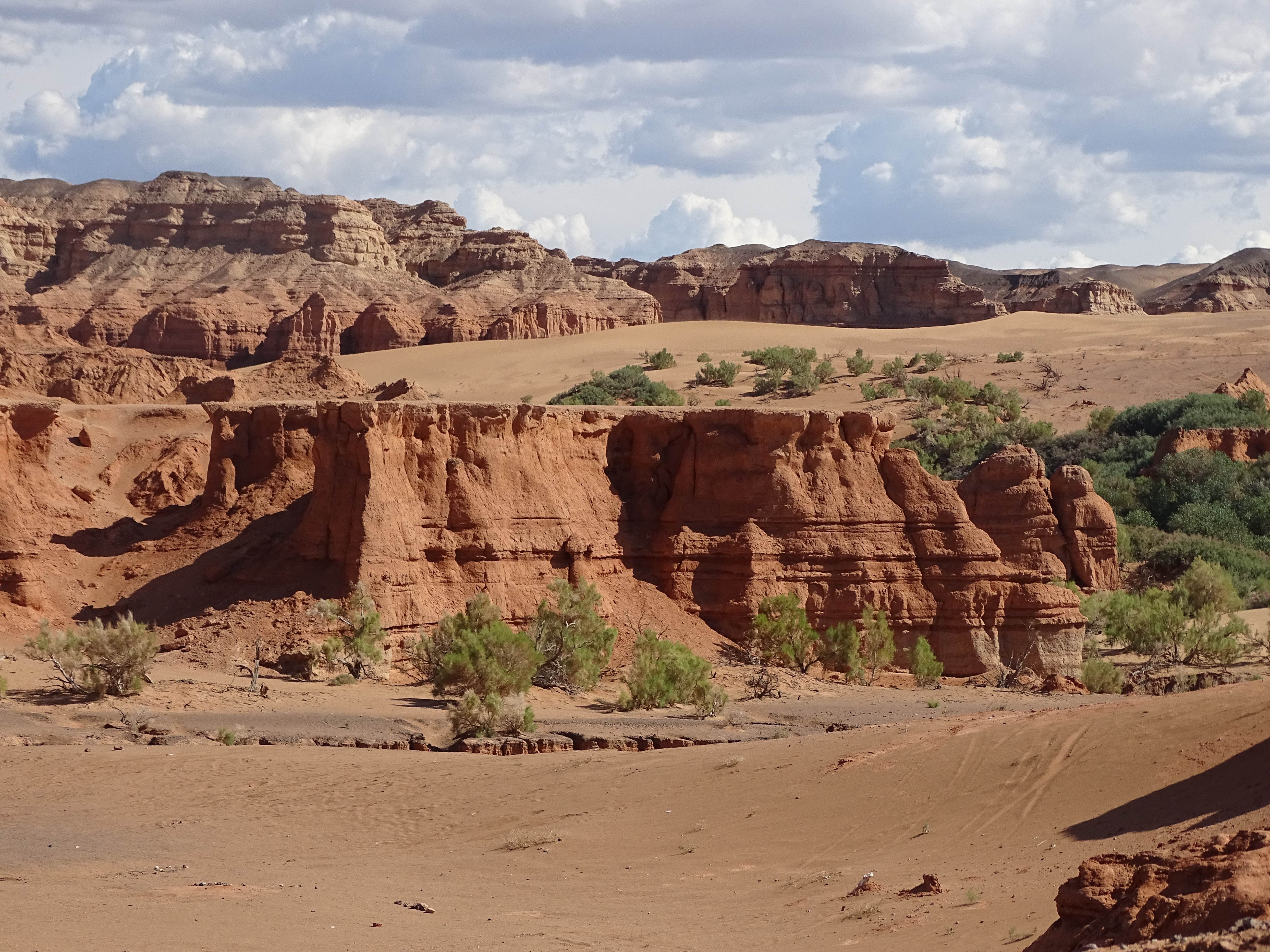 National Park Gobi Gurvansaikhan - formations in the Kermen Tsav